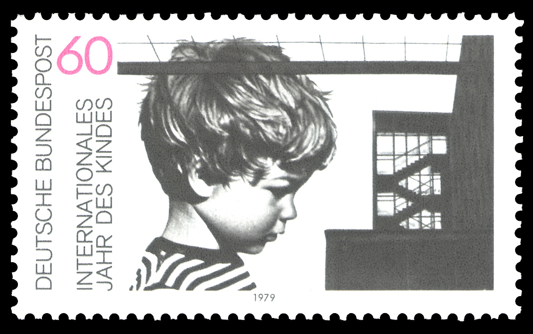 International year of the child, 1979